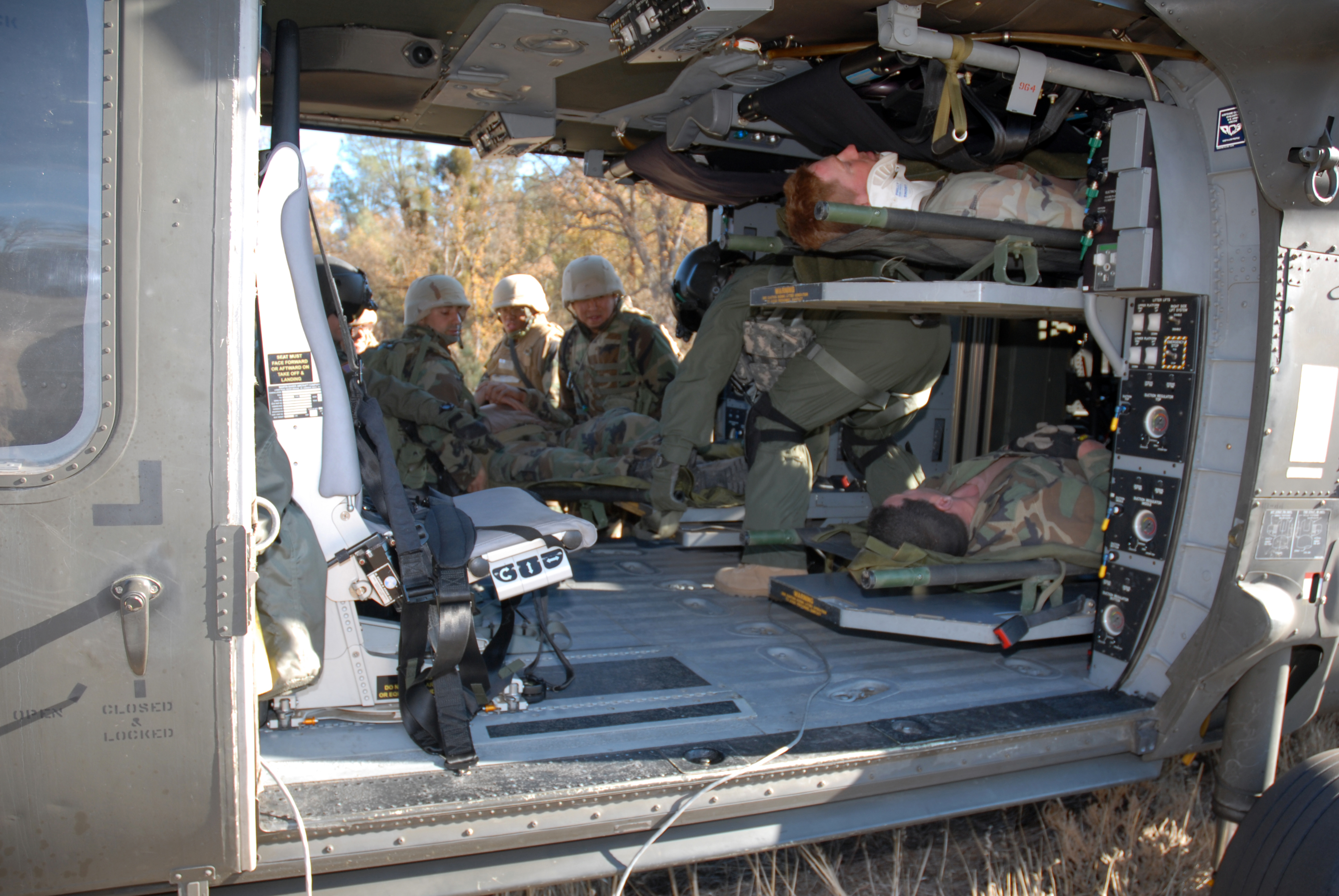 FORT HUNTER LIGGETT, Calif. (Dec. 11, 2007) Seabees from Naval Mobile Construction Battalion (NMCB) 17 assist in loading fellow Seabees into a Blackhawk medical evacuation helicopter (MEDAVAC) during a mass casualty drill. NMCB-17 and other units are taking part in joint three-week field exercise known as "Operation Bearing Duel." U.S. Navy photo by Mass Communication Specialist 2nd Class Kenneth W. Robinson (Released)